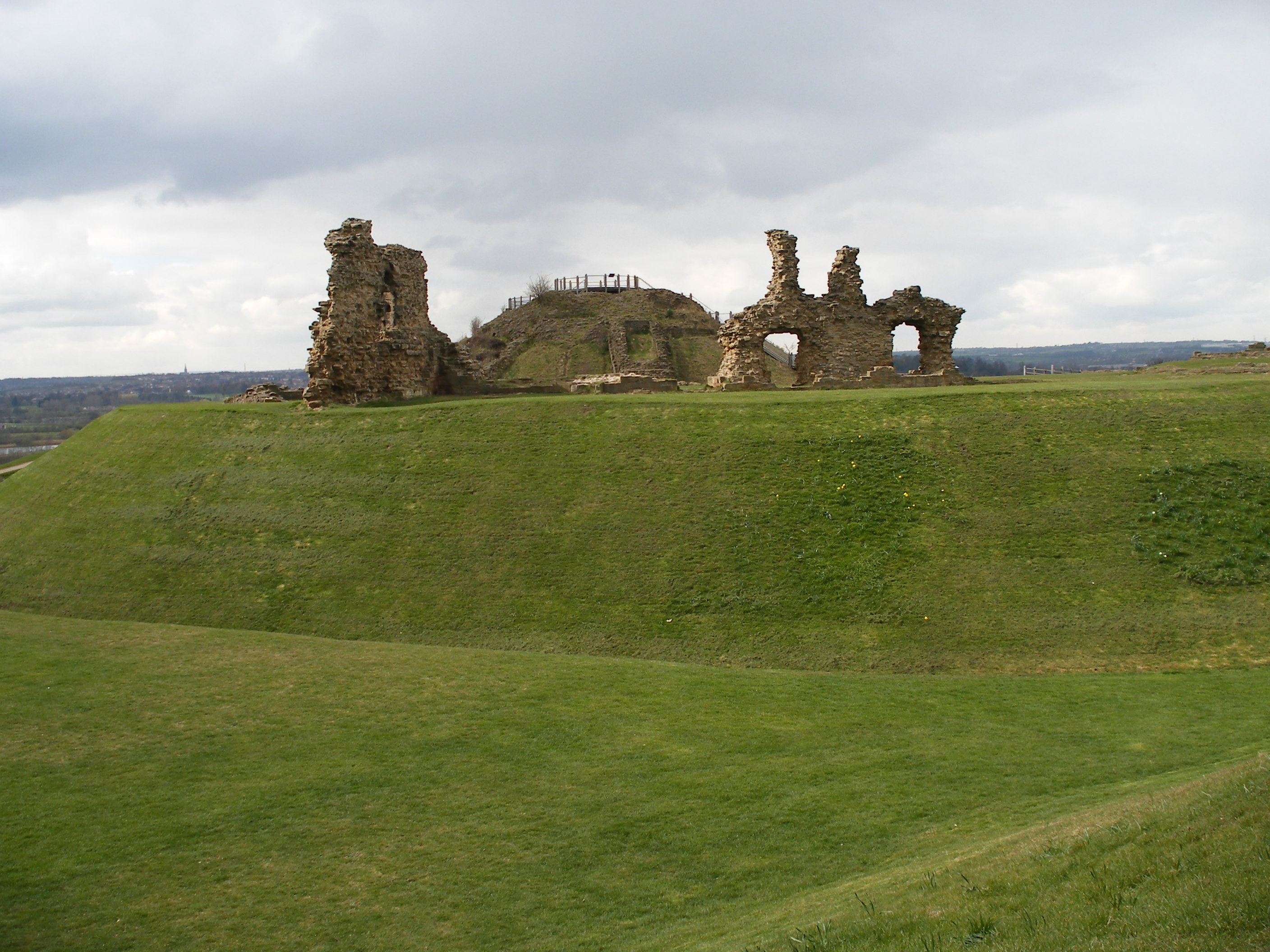 The ruins of Sandal Castle, Wakefield, West Yorkshire.